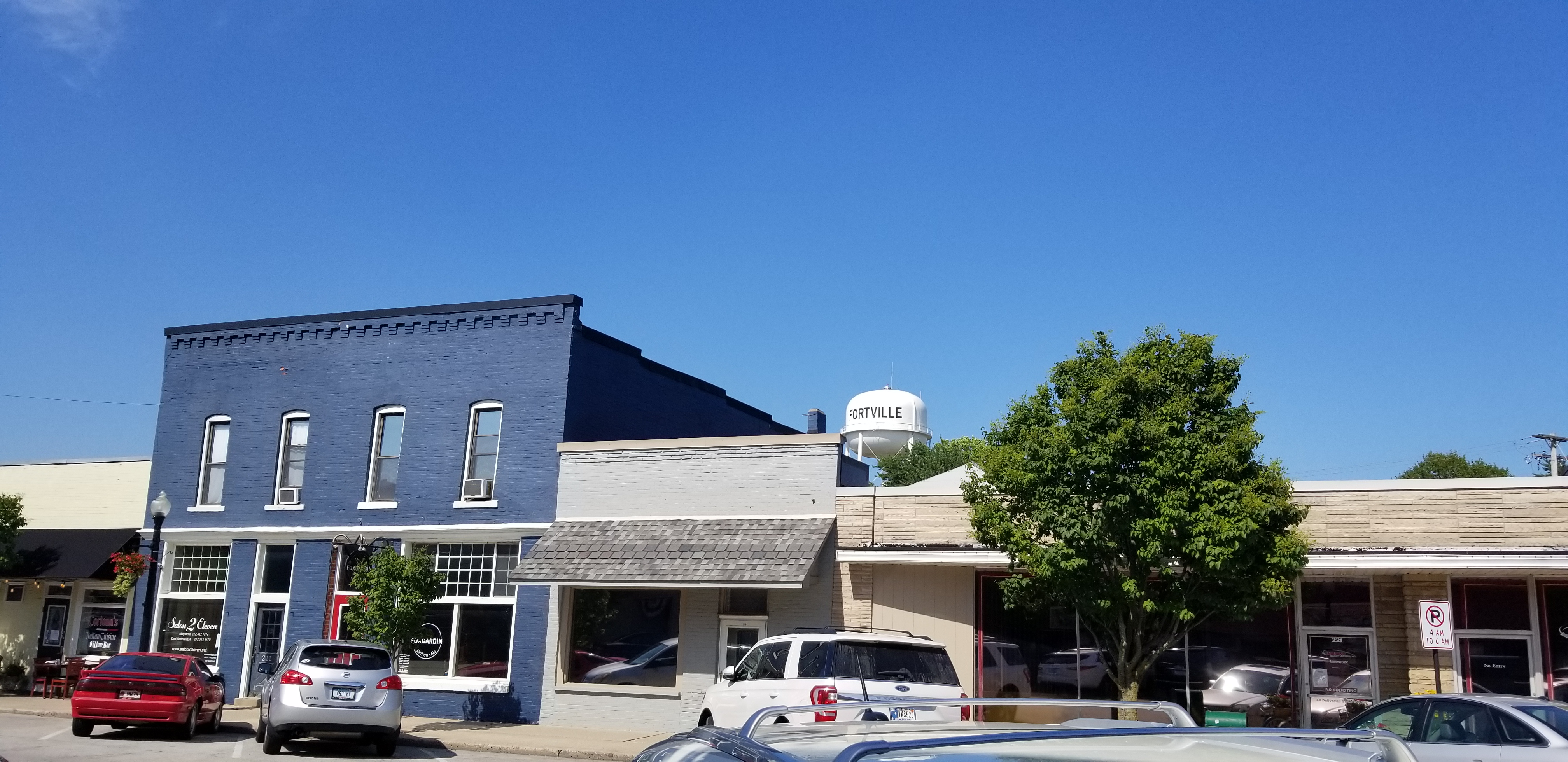 Fortville, Indiana